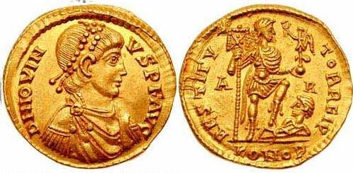 Jovinus. AV Solidus. Arles mint. DN IOVINVS PF AVG, Pearl-diademed, draped, and cuirassed bust right / RESTITVTOR REIP, Jovinus standing right, holding labarum and Victory on globe, one foot on a captive on the ground. A-R across fields. Mintmark KONOB. RIC 1708.